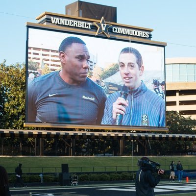 Coach Mason